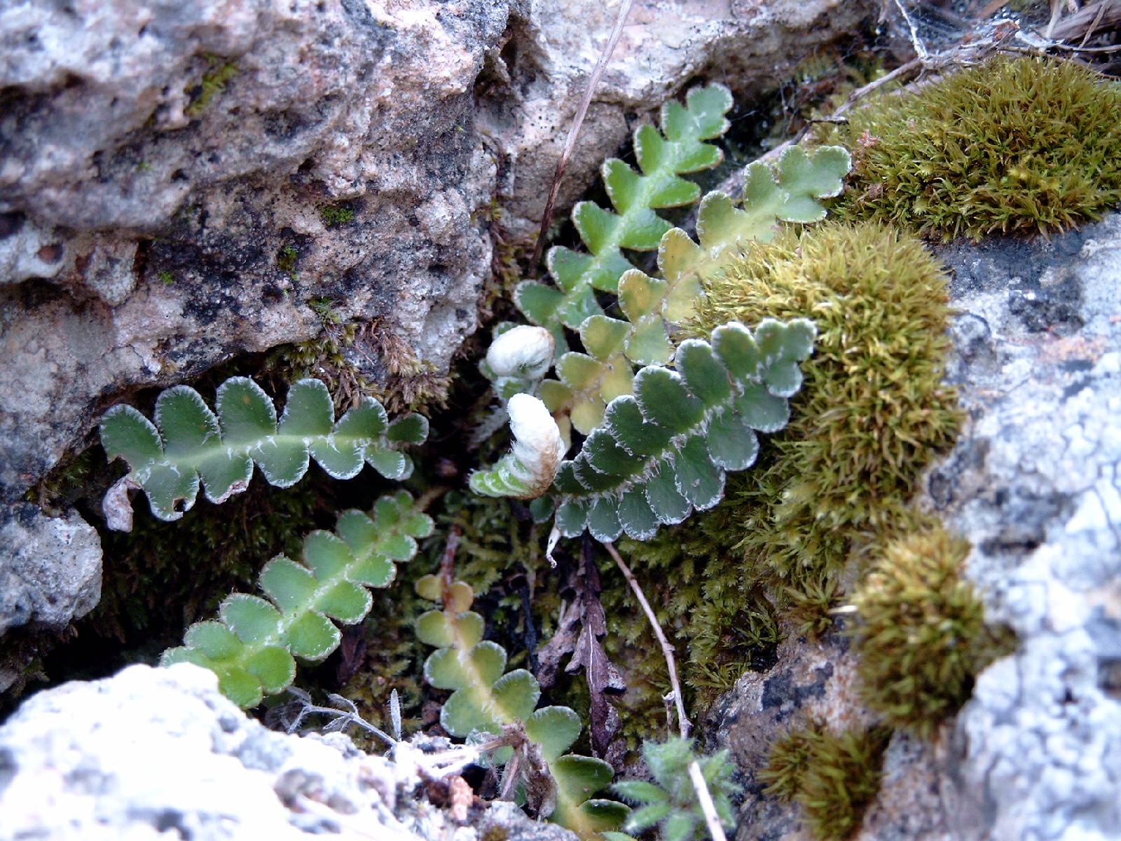 Name Asplenium ceterach (= Ceterach officinarum) Family Aspleniaceae